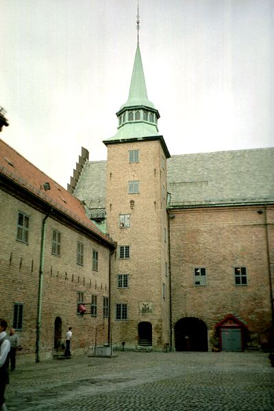 Akershus castle